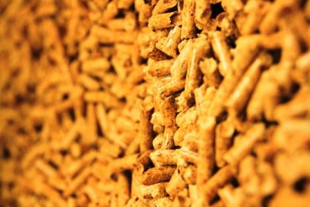 Pellets BADGER en vrac